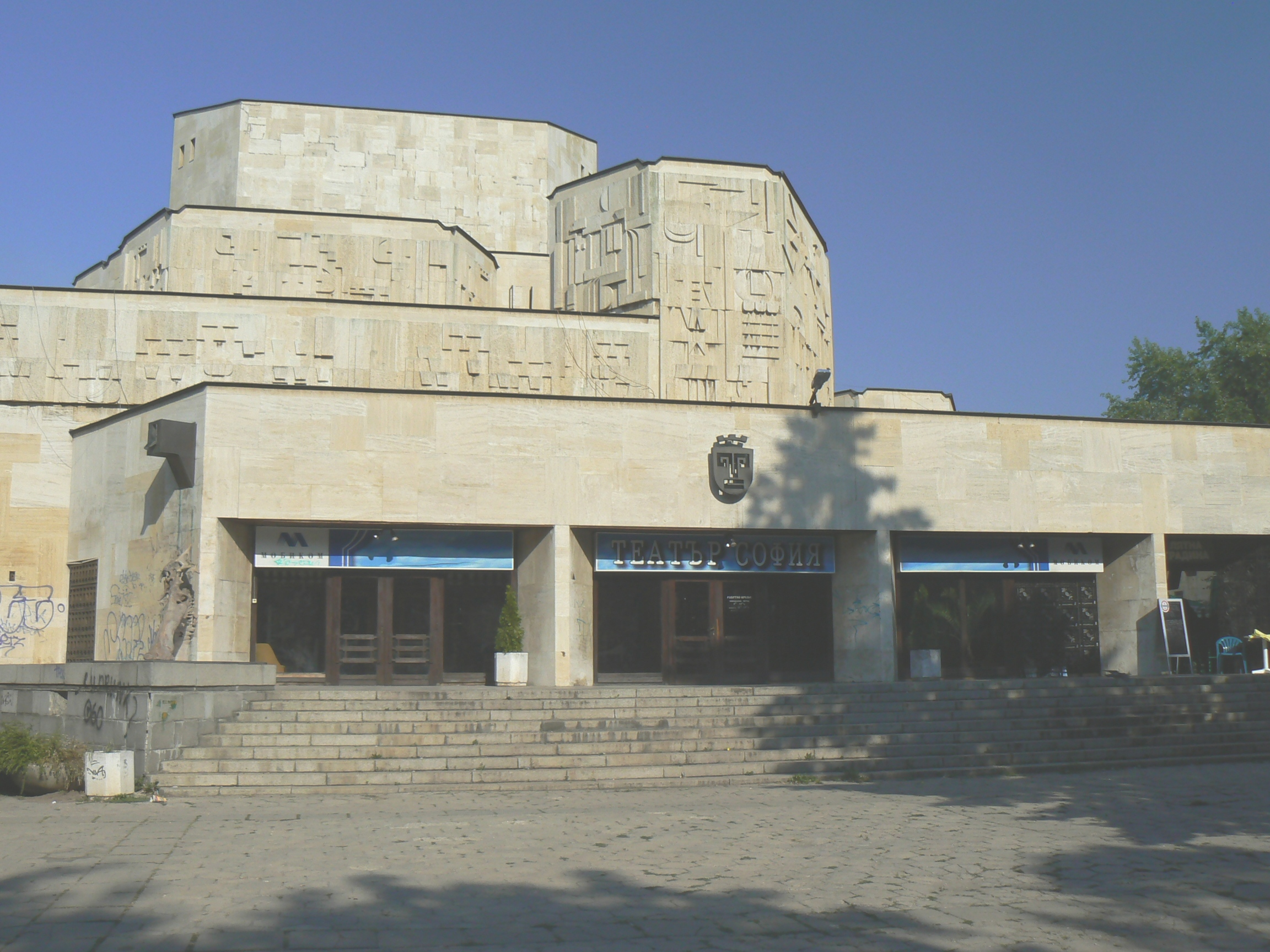 "Sofia" Theatre, Sofia, Bulgaria